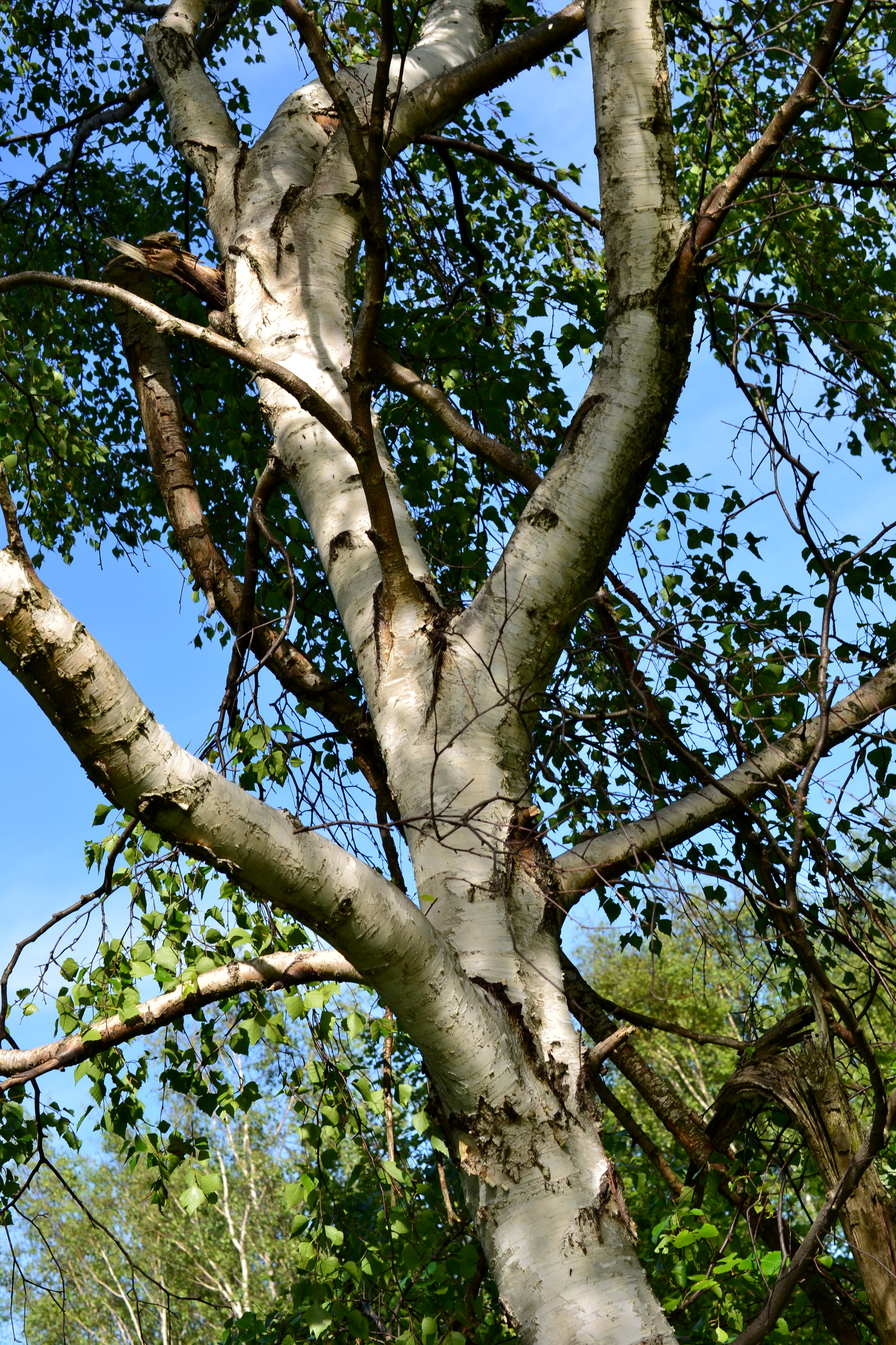 Betula oycoviensis - trunk